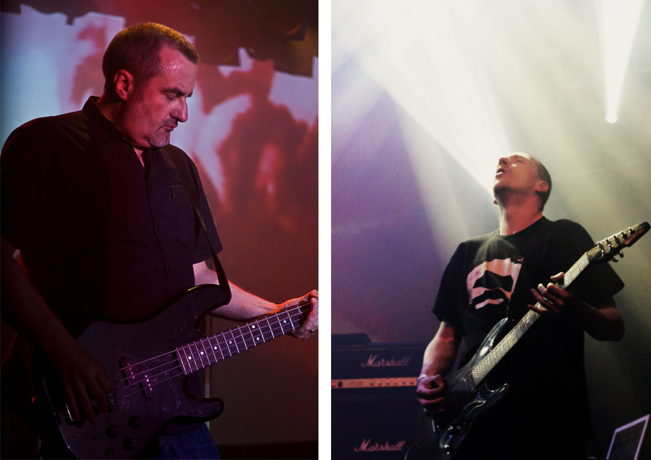 Godflesh in 2013 and 2011